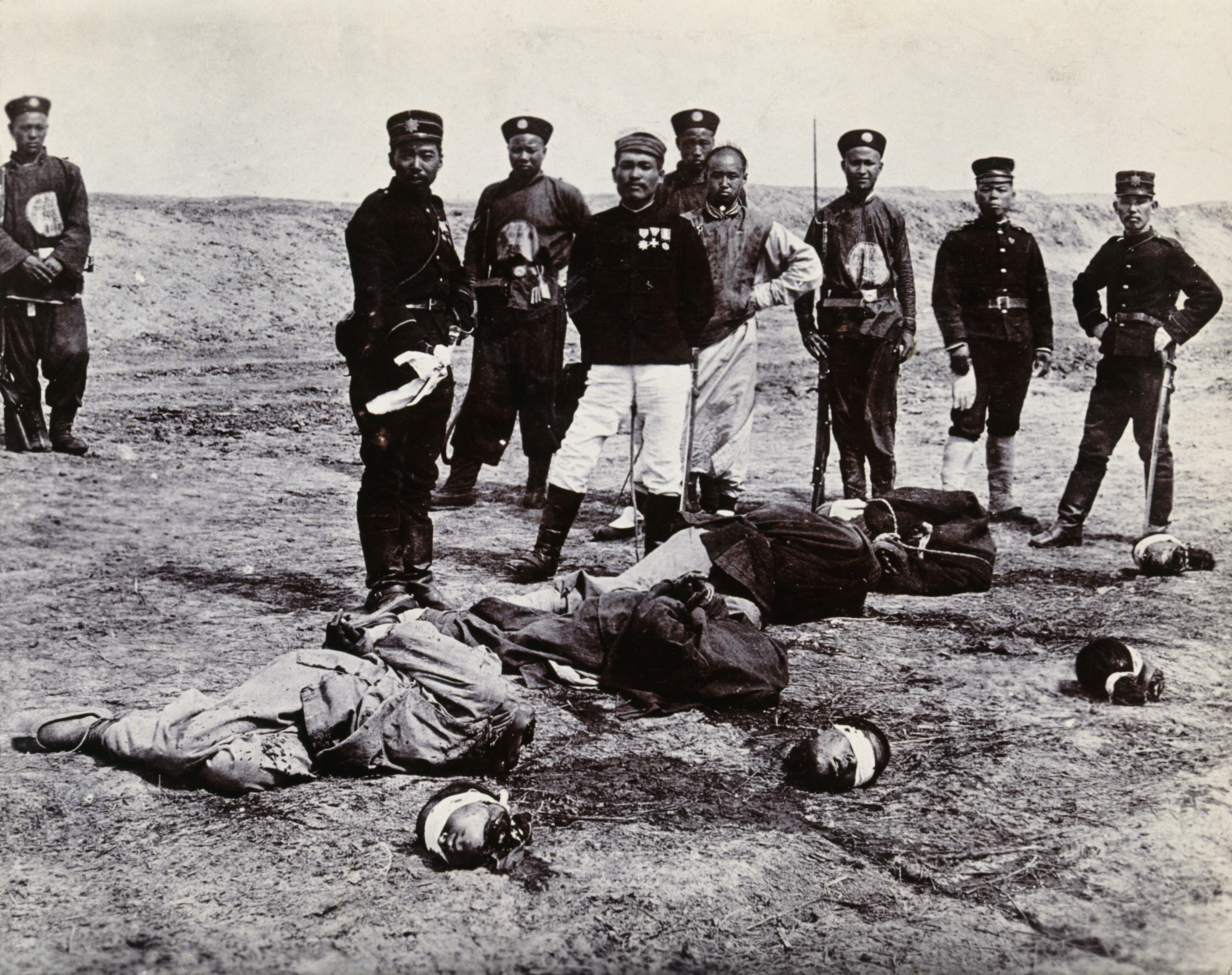 Xinhai Revolution soldier. Francis E. Stafford photographs Keywords: Chinese; Asian Continental Ancestry Group; China; Xinhai; Qing Dynasty; picture; Chinese Revolution (1911)